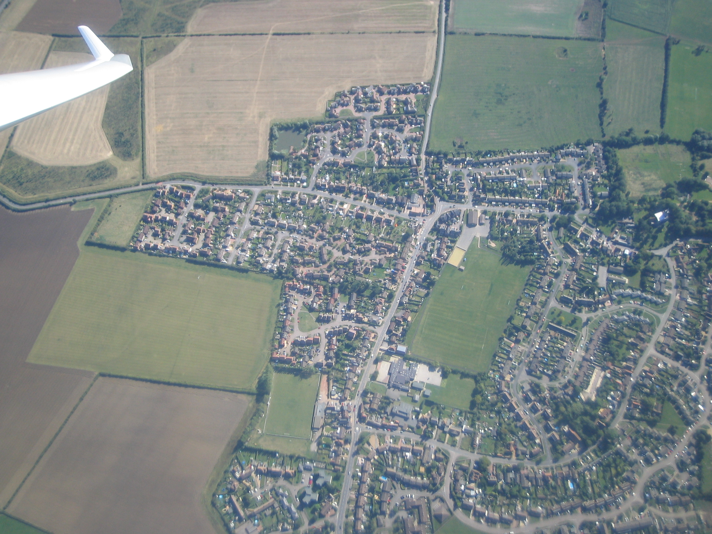 © Shaun Murdoch, August 2005 Aerial View of Wootton Village, Bedfordshire. Taken from a single seat ASW 24 glider, competition number '96', by Shaun Murdoch during the 2005 Junior Nationals Competition. Altitude ~4000 feet above Wootton.